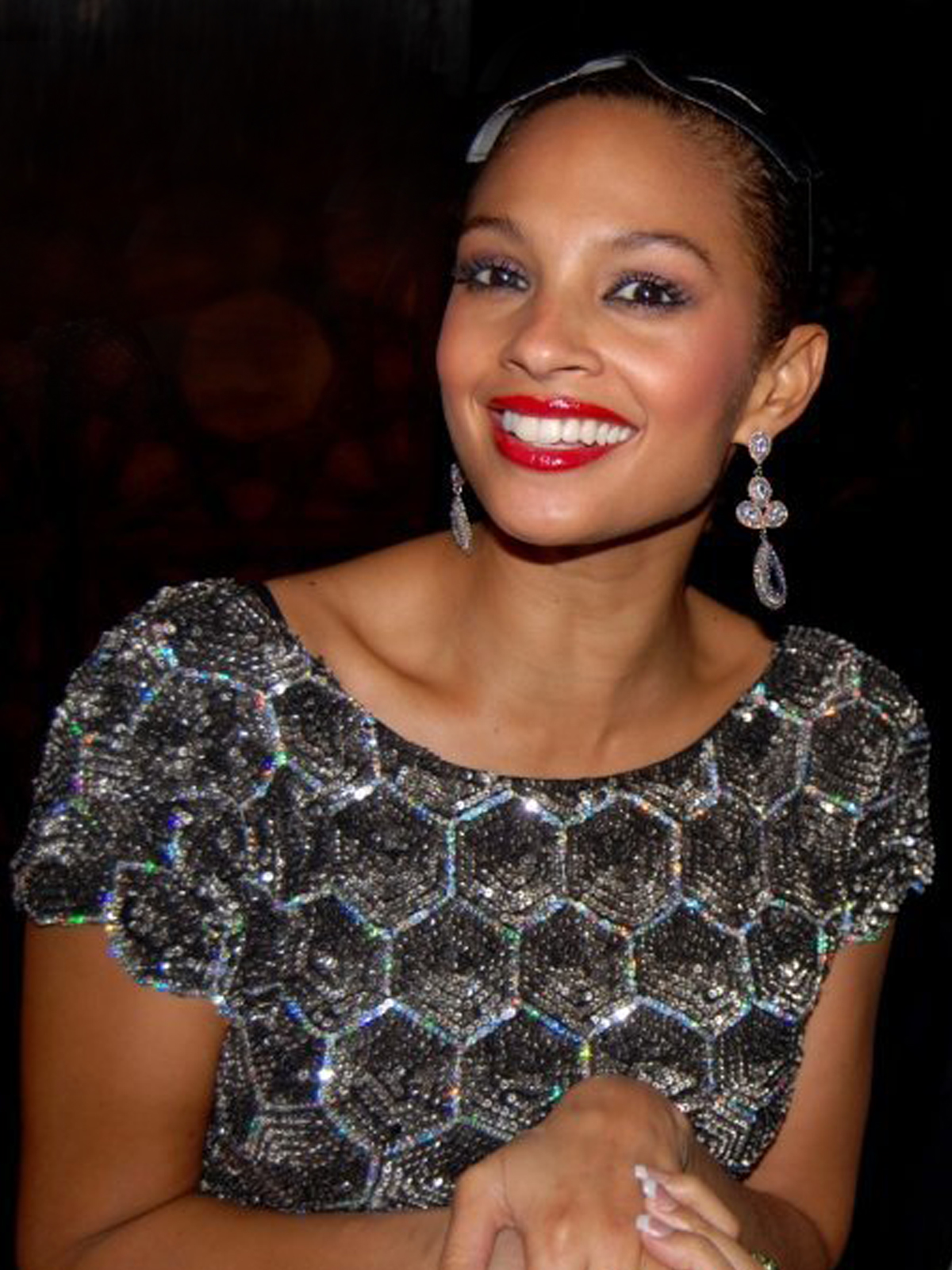 Television presenter and singer Alesha Dixon pictured in 2009 at Tup Tup Palace nightclub, Newcastle upon Tyne, UK.